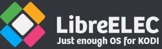 Logo of LibreELEC